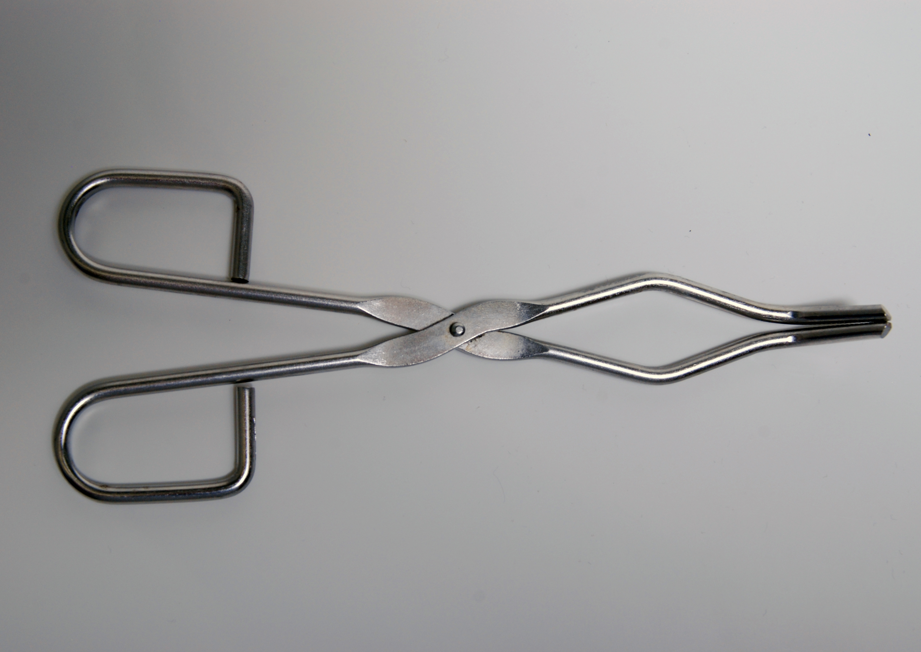 Crucible tongs